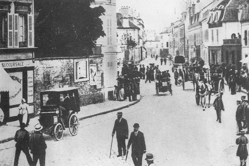 1894 paris-rouen motor race - Gratien Michaux in mantes ( 30 peugeot phaeton 3hp) finished 9th